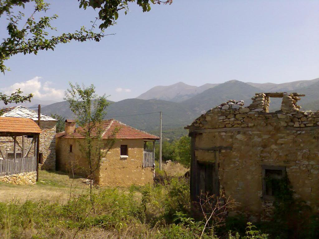 Village of Lokvica, Poreche region, Republic Macedonia